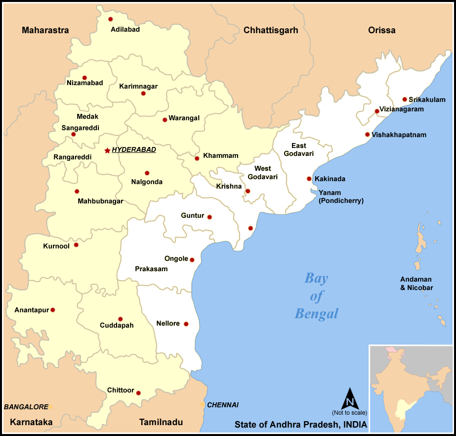 Map of Andhra Pradesh